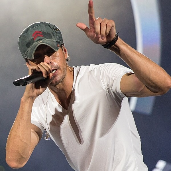 Cropped version of Enrique Iglesias and Pitbull 2015.jpg Enrique Iglesias performing with Pitbull at the Frank Erwin Center in Austin, Texas, 2015